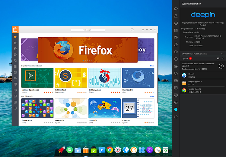 Deepin Store in deepin 15.1